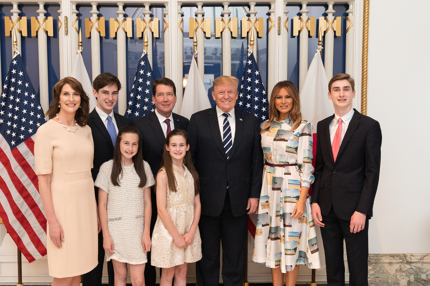 President Donald J. Trump and First Lady Melania Trump pose for a photo with the U.S. Ambassador to Japan William Hagerty, his wife Chrissy Hagerty and their children Saturday, May 25, 2019, at the U.S. Ambassador’s Residence in Tokyo. (Official White House Photo by Shealah Craighead)